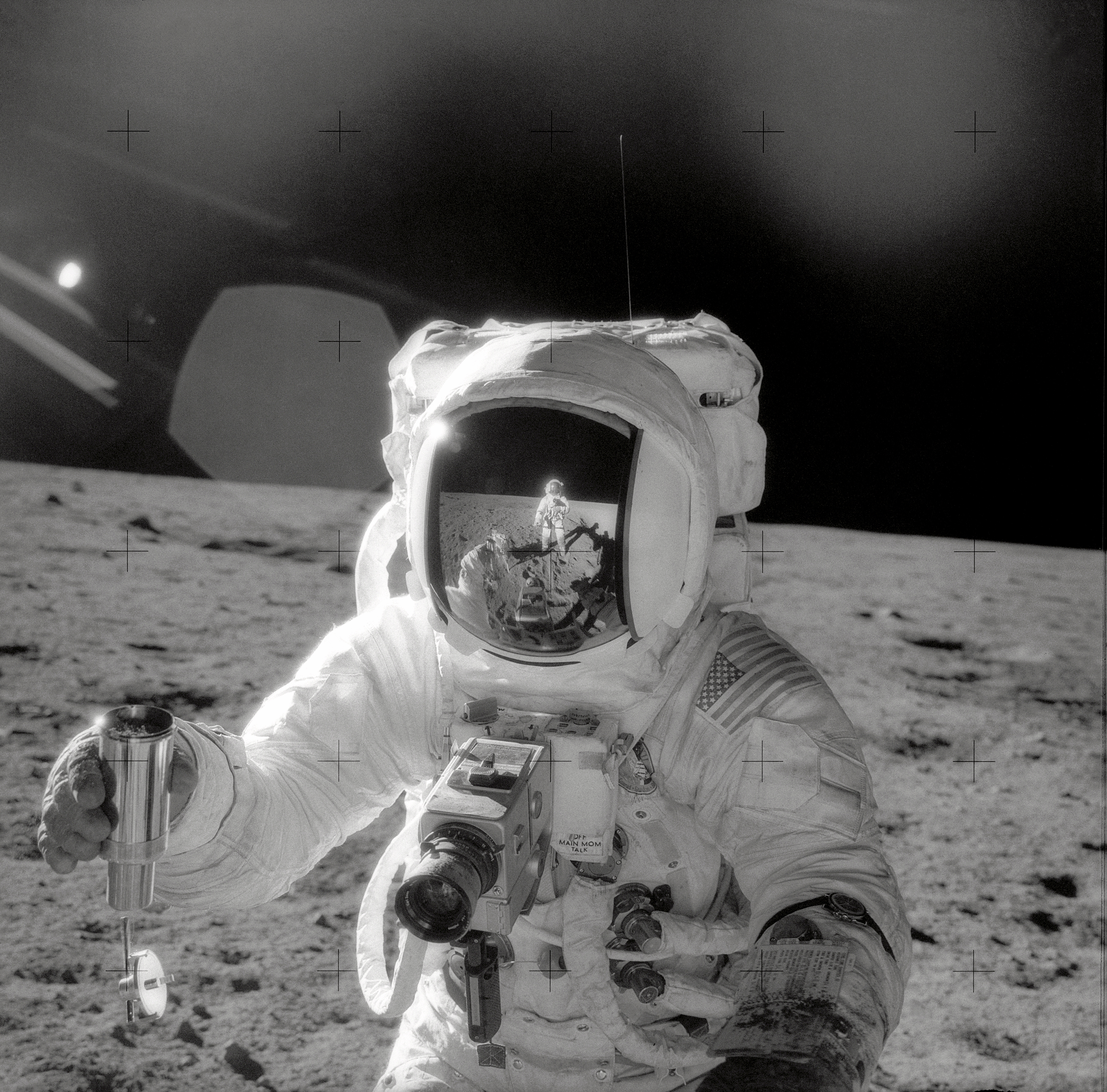 Astronaut Alan L. Bean, Lunar Module pilot for the Apollo 12 lunar landing mission, holds a Special Environmental Sample Container filled with lunar soil collected during the extravehicular activity (EVA) in which Astronauts Charles Conrad Jr., commander, and Bean participated. Connrad, who took this picture, is reflected in the helmet visor of the Lunar Module pilot.